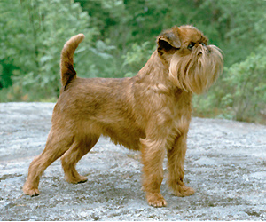 A brown Griffon bruxellois with beard